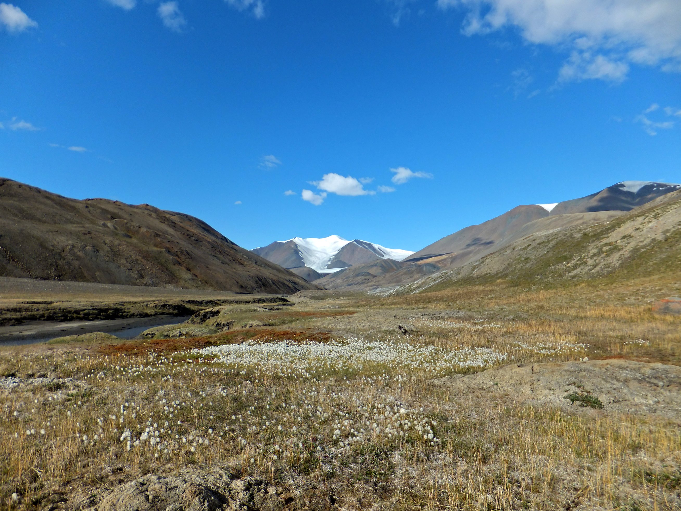 Very River valley, Quttinirpaaq National Park.